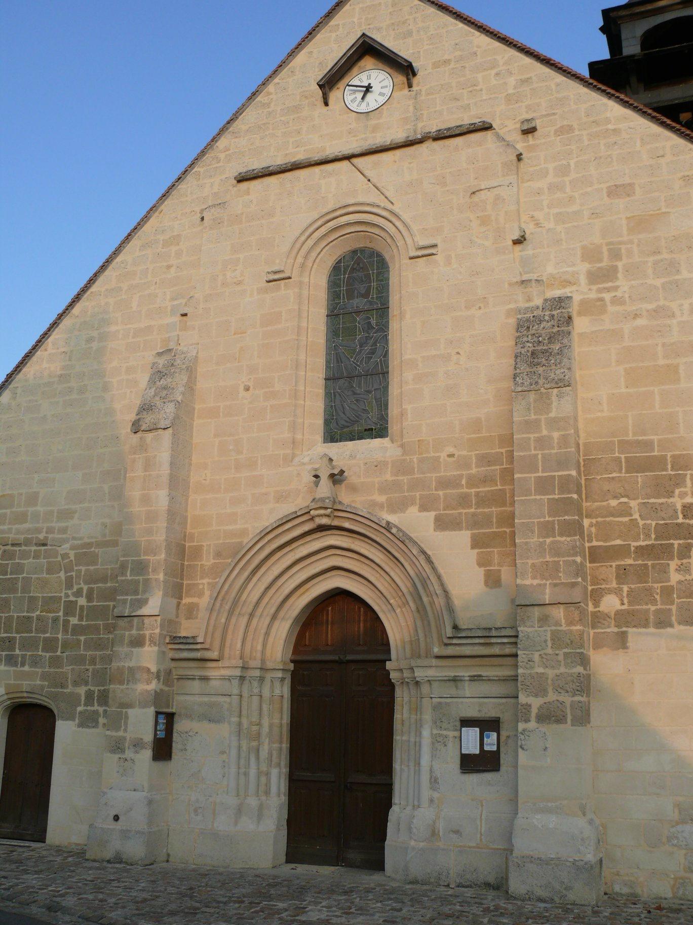 Saint-Martin's church of Gilocourt (Oise, Picardie, France).